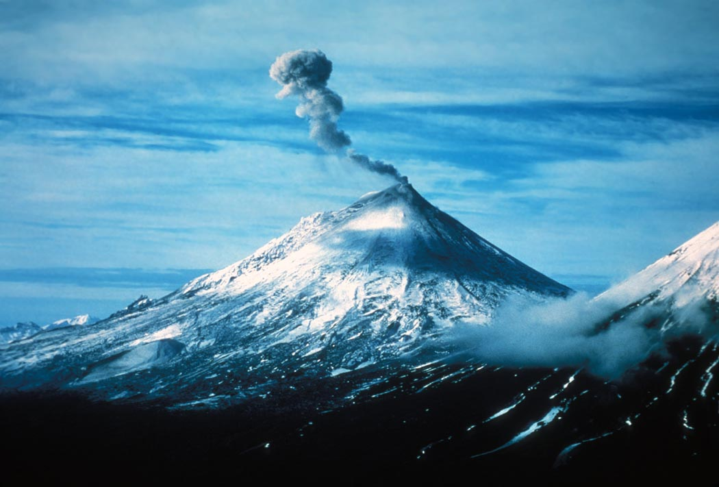 Pavlof Volcano, Alaska Peninsula National Wildlife Refuge